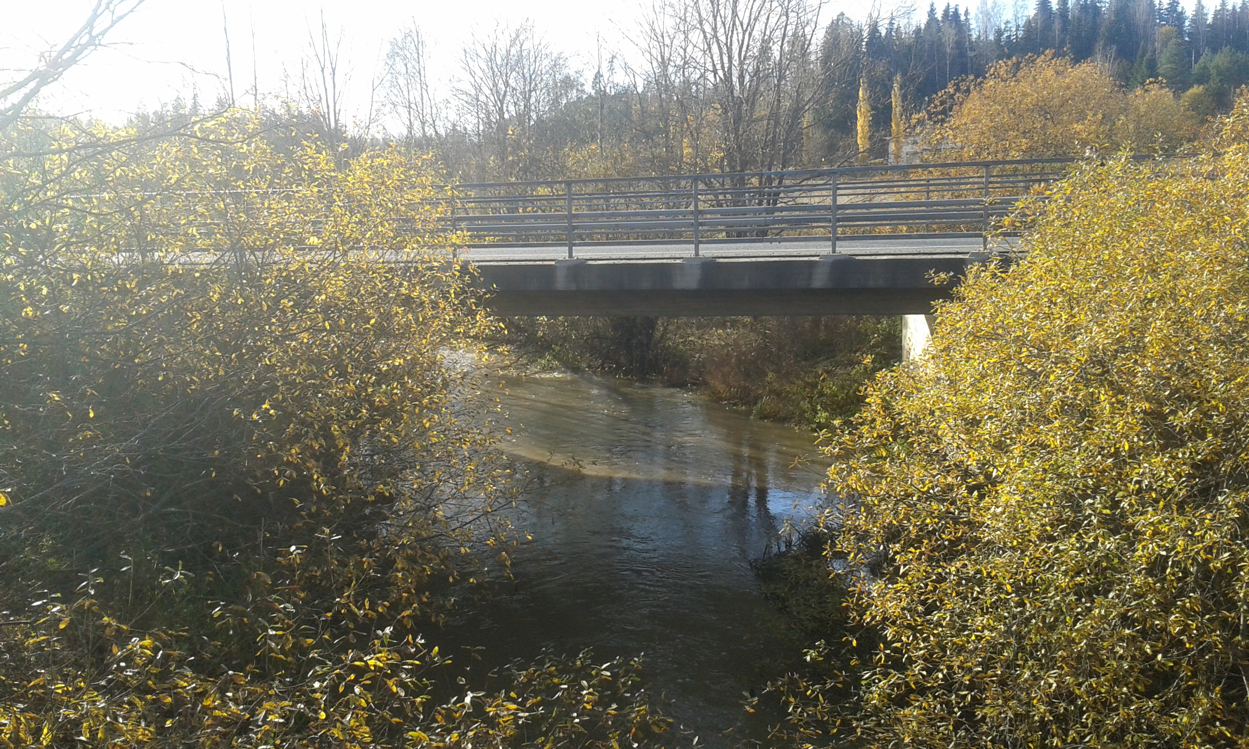 Luhtajoki river with main road bridge in Klaukkala near the Vantaa border.